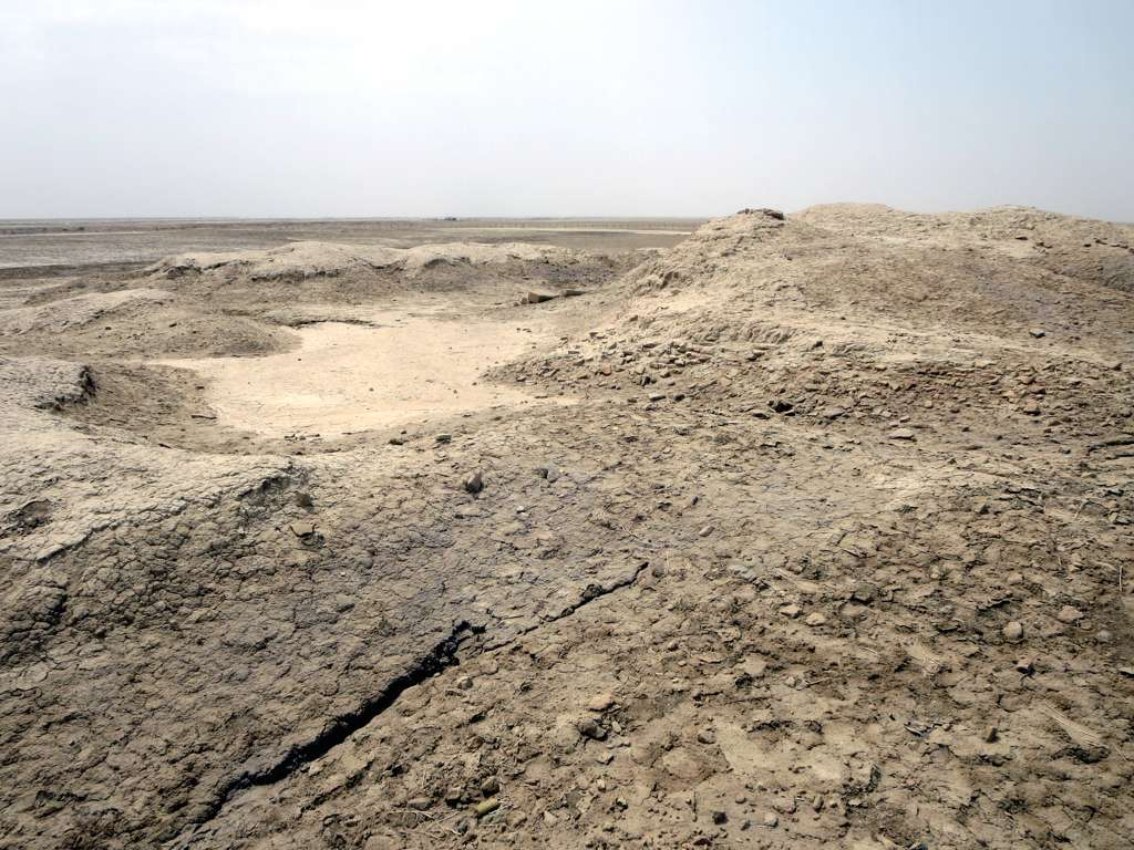 Tel Ubiad Archaeological evidence of one of the world's oldest civilizations dating back to the 5th millennium BC has been unearthed at Tel Ubaid, six km west of Ur, Iraq.